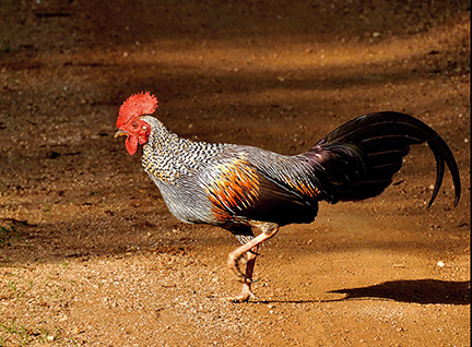 Grey Junglefowl in Nagarahole Tiger Reserve, Karnataka, India in May 2019